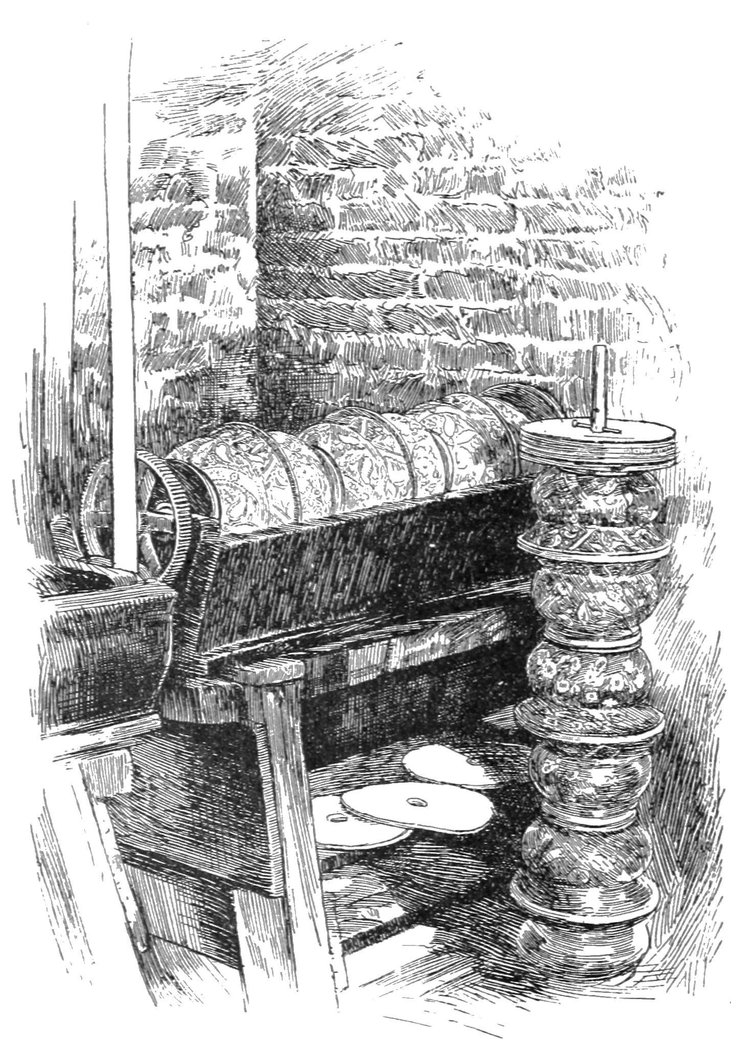 The glass etching process